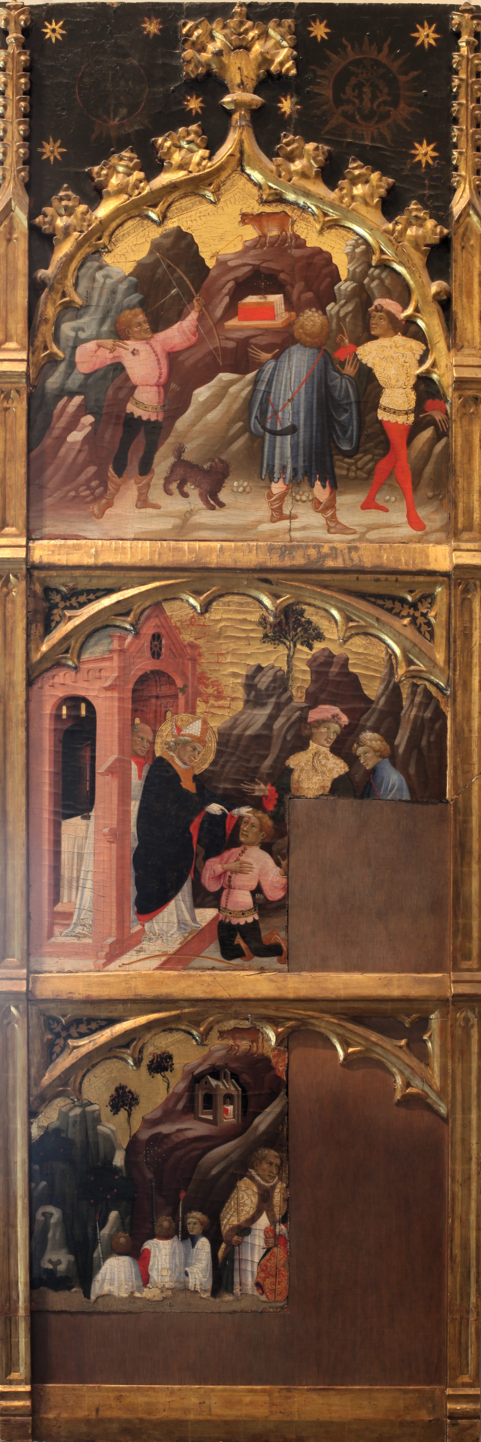 Garganus firing at the escaped bull an arrow that miraculously backfires (top) The bishop of Siponto removing the arrow (middle) The bishop of Siponto going in a procession to "Mount Garganus" on instruction from Saint Michael (bottom)